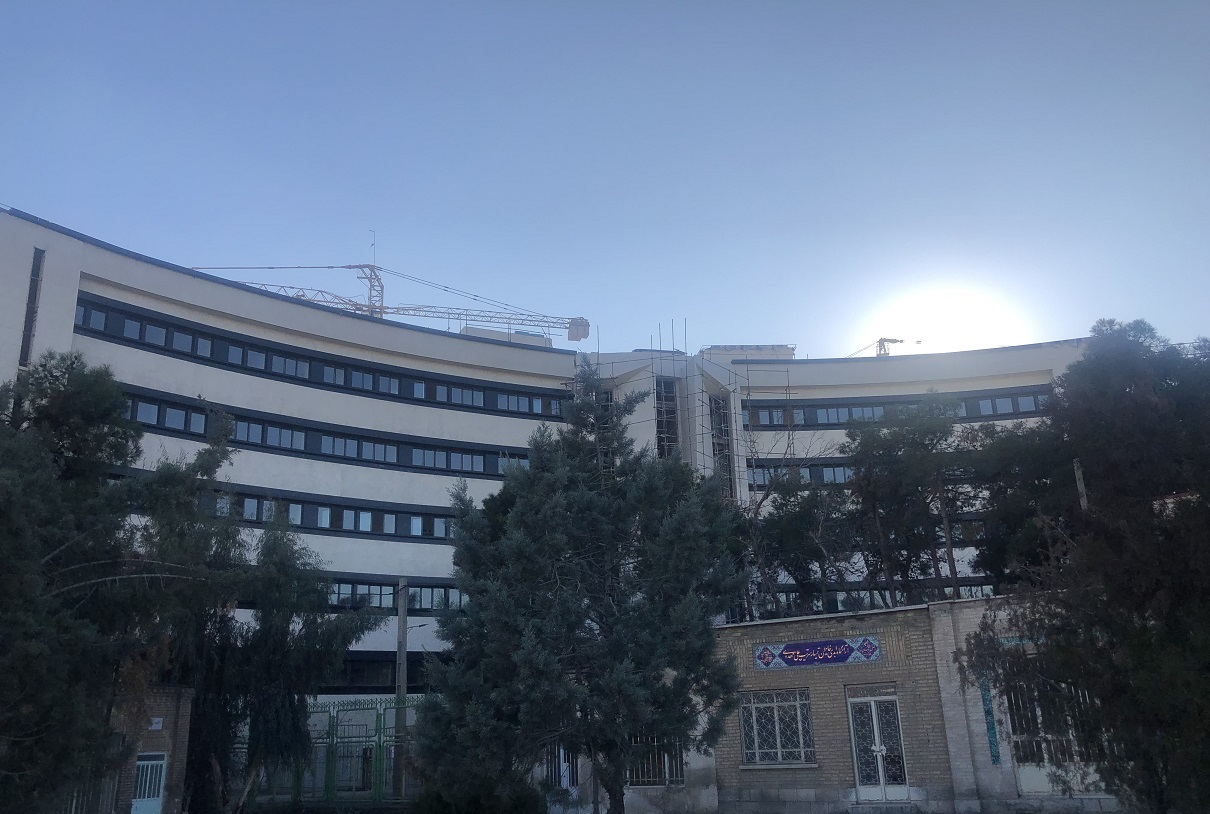 Firouzabadi Hospital